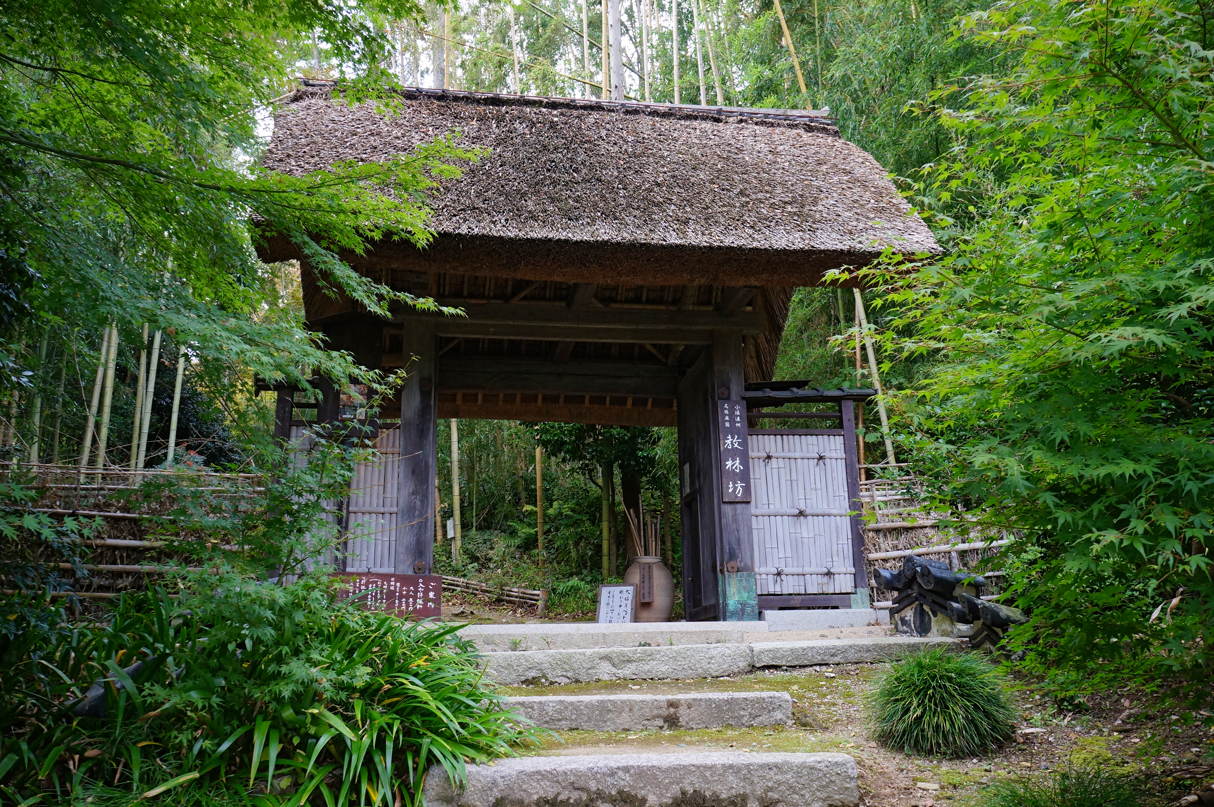 Kyorin-bo in Azuchi, Omihachiman, Shiga prefecture, Japan.